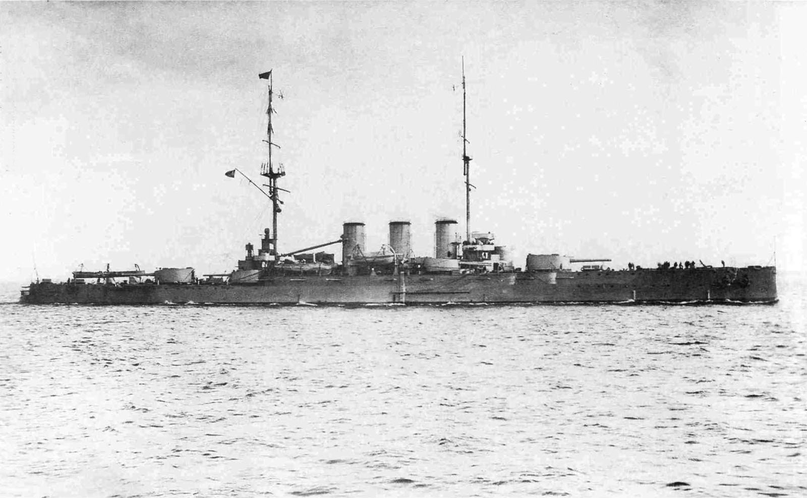 Russian armoured cruiser Ryurik at Lappvik, 1914-1915.